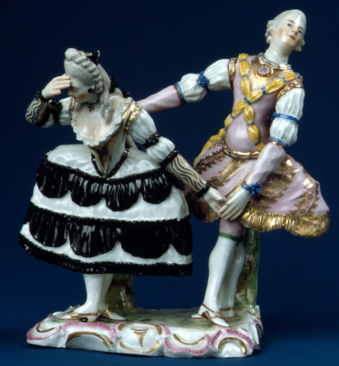 German, Ludwigsburg; Group; Ceramics-Porcelain